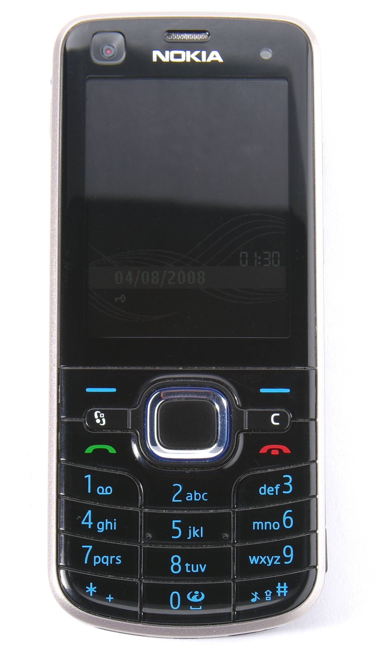 Front view of the Nokia 6220 classic mobile phone.